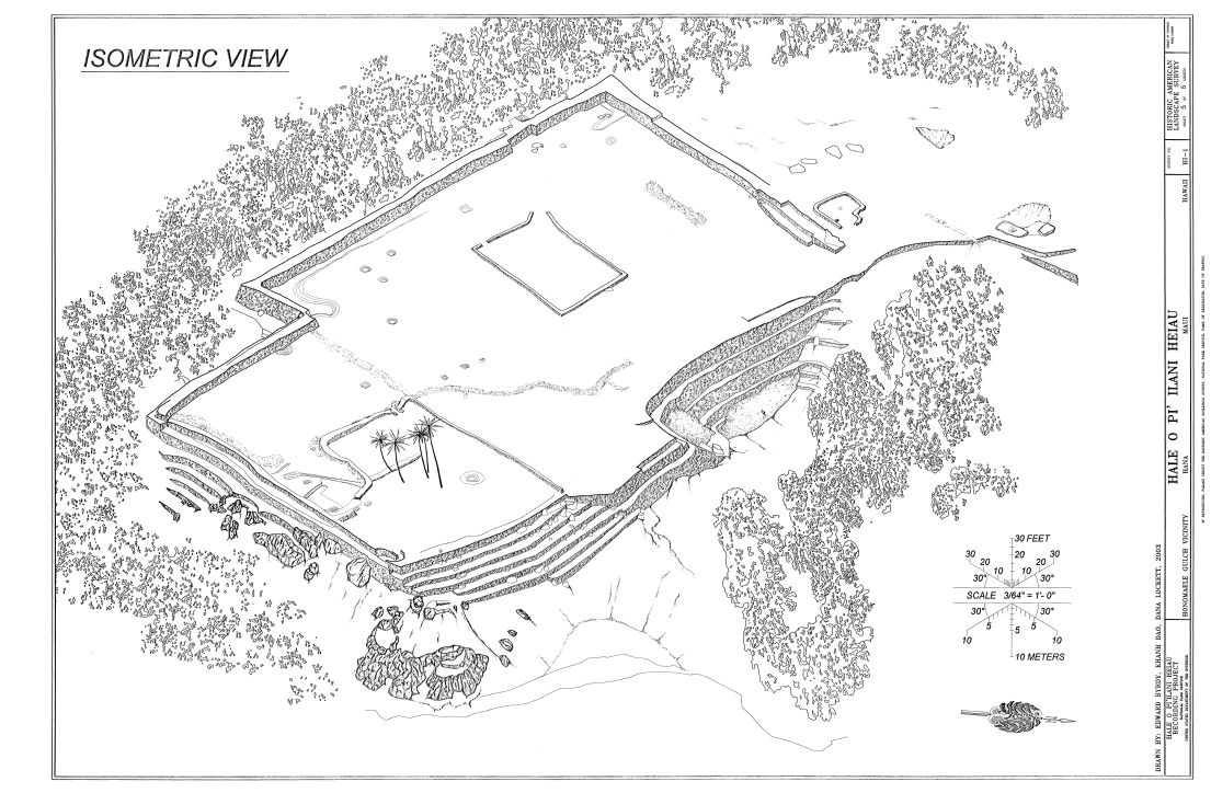 Isometric view of Hale O Pi' Ilani Heiau — Honomaele Gulch vicinity, Hana, Maui County, Hawaii. Approximate lat/long: 20°48′15″N 156°2′25″W / 20.80417°N 156.04028°W Image has been reduced, and border partially trimmed.